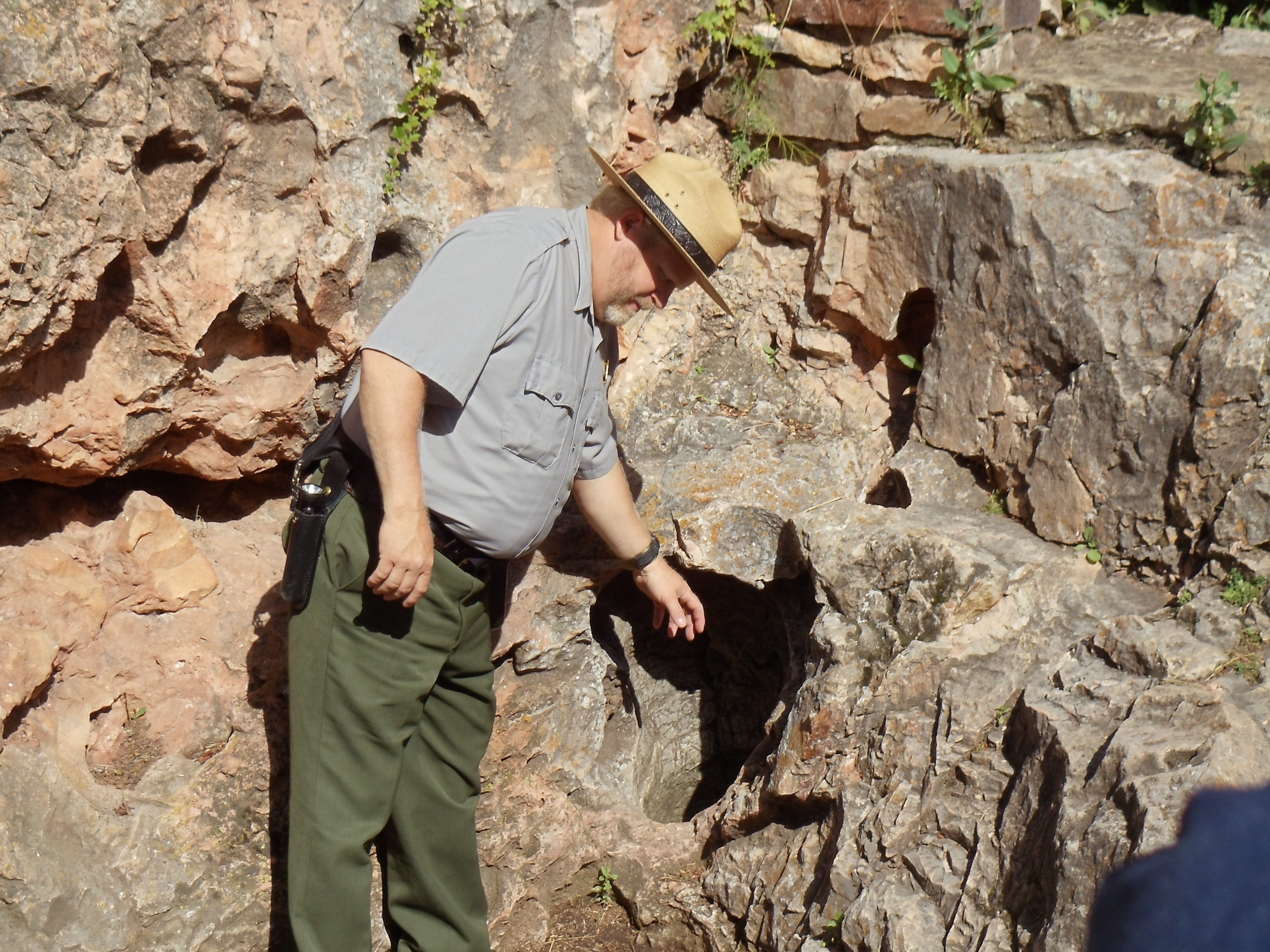 A United States National Park ranger stands in front of the natural entrance to Wind Cave in Wind Cave National Park in South Dakota.